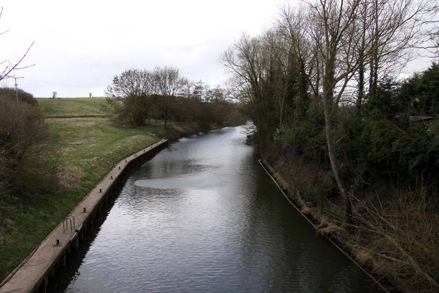 Culham Cut from Sutton Bridge Culham Cut was constructed by river traders to bypass Sutton Courtney and their expensive tolls